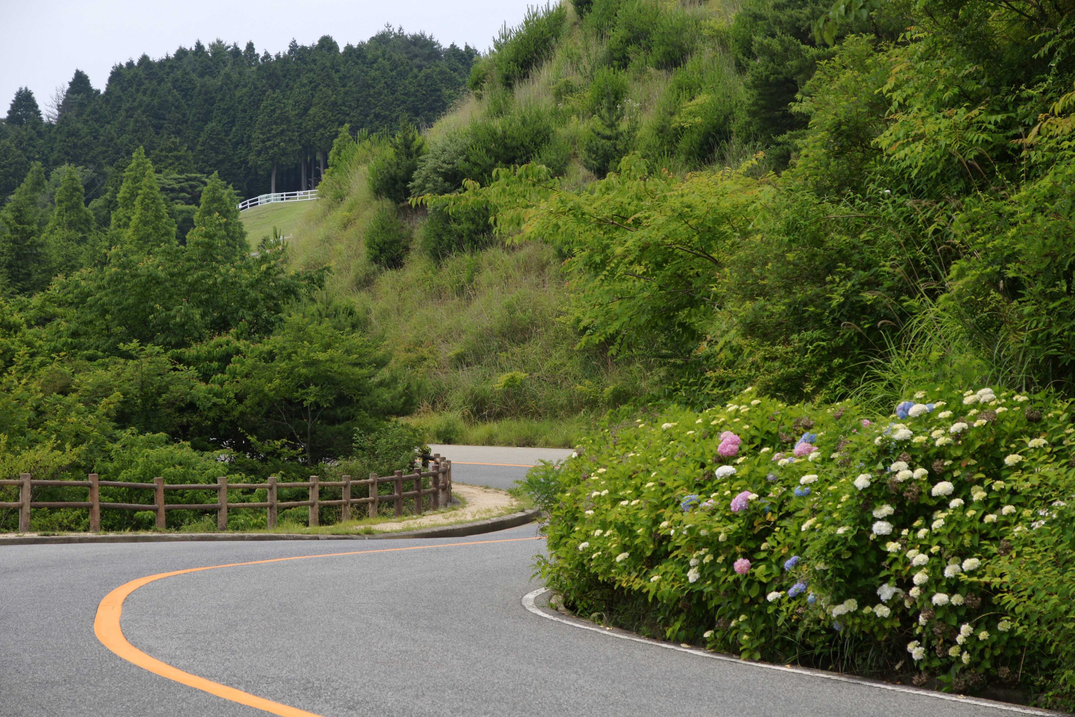 Okumaya Driveway, Kobe, Hyogo prefecture, Japan